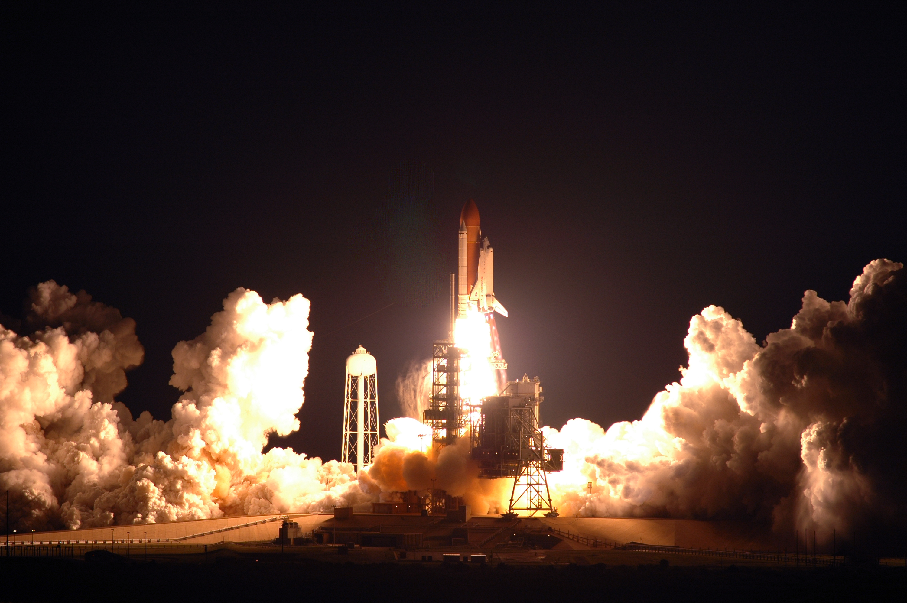 Launch of Space Shuttle Endeavour, Mission STS-123